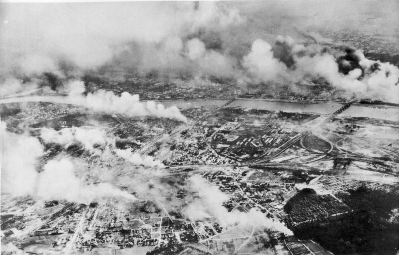 Warsaw during World War II